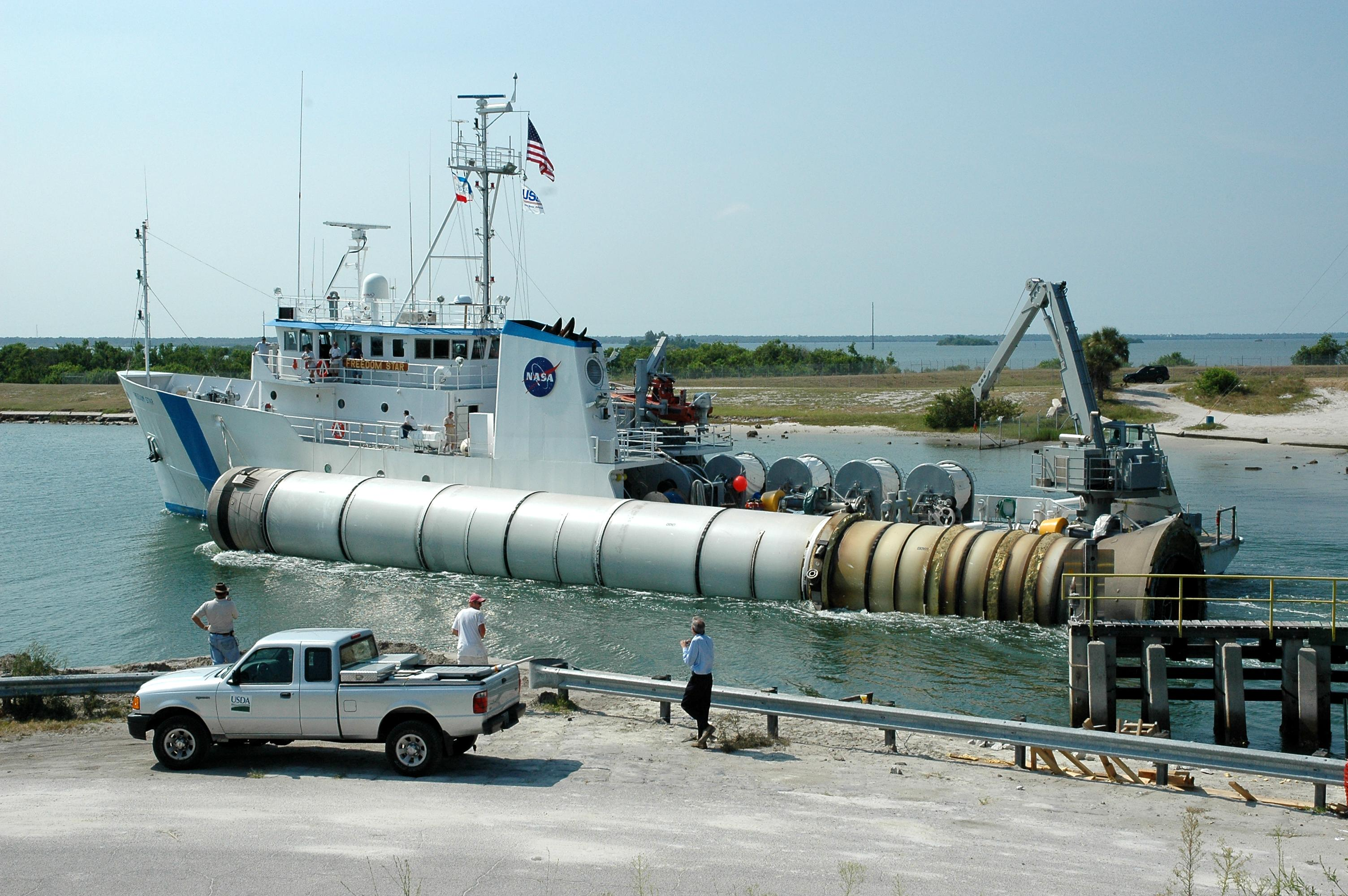 Photographers capture the solid rocket booster recovery ship Freedom Star with a spent solid rocket booster (SRB) from the STS-114 launch on July 26 in tow as it makes it way through Port Canaveral to Hangar AF on the Cape Canaveral Air Force Station. The SRBs are the largest solid propellant motors ever flown and the first designed for reuse. After a Shuttle is launched, the SRBs are jettisoned at two minutes, seven seconds into the flight. At six minutes and 44 seconds after liftoff, the spent SRBs, weighing about 165,000 lb., have slowed their descent speed to about 62 mph and splashdown takes place in a predetermined area. They are retrieved from the Atlantic Ocean by special recovery vessels and returned for refurbishment and eventual reuse on future Shuttle flights. Once at Hangar AF, the SRBs are unloaded onto a hoisting slip and mobile gantry cranes lift them onto tracked dollies where they are safed and undergo their first washing.